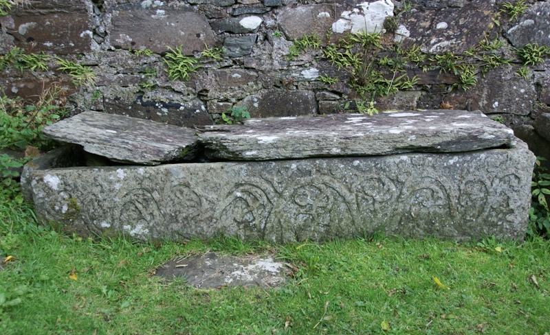 Kirkton Chapel, Craignish, Argyll and Bute, Scotland. One of the four tomb chests (16th century).